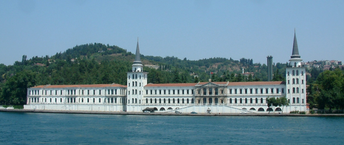 Kuleli Military High School, Istanbul.